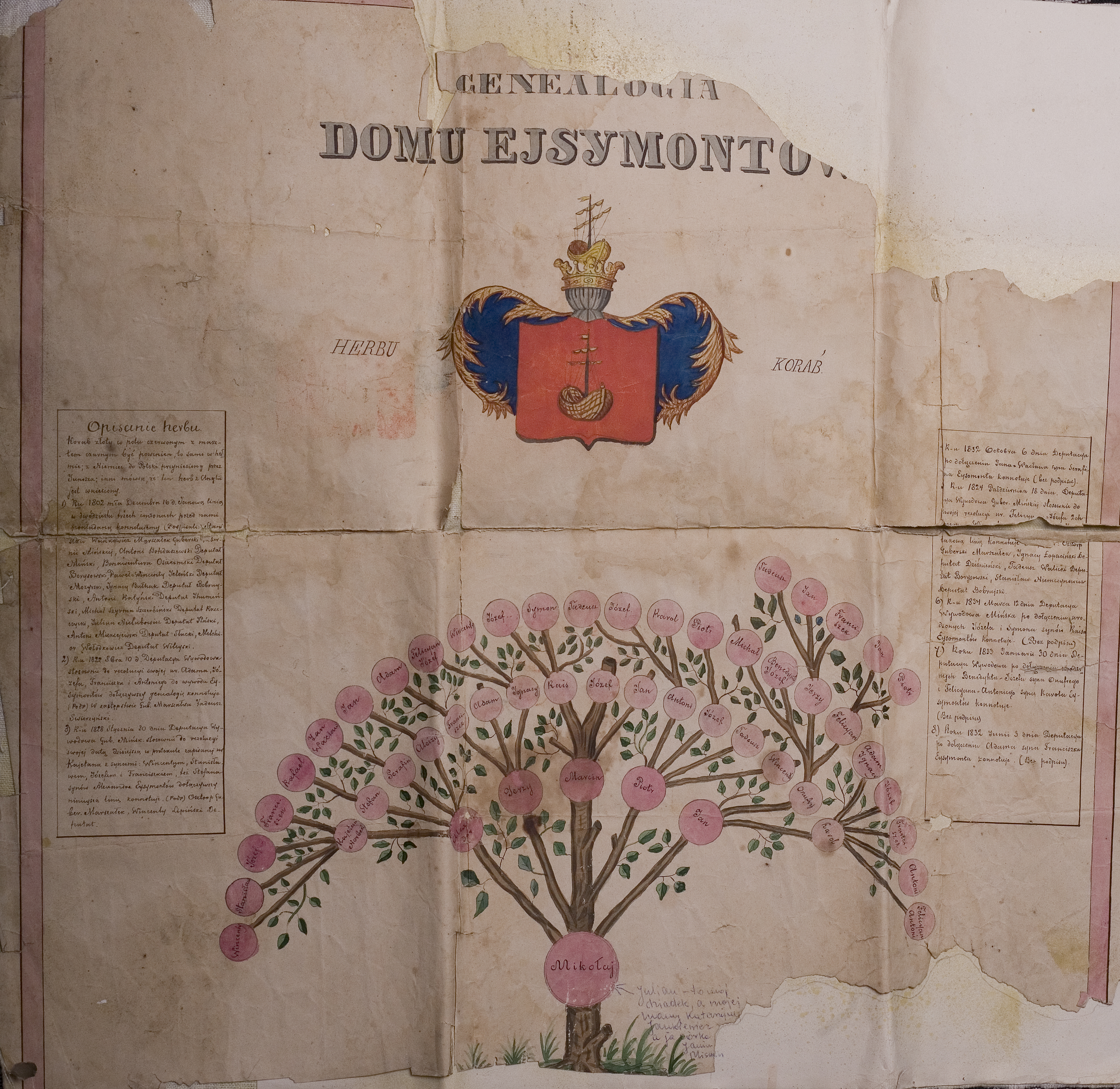 Genealogy of the Eysymont House